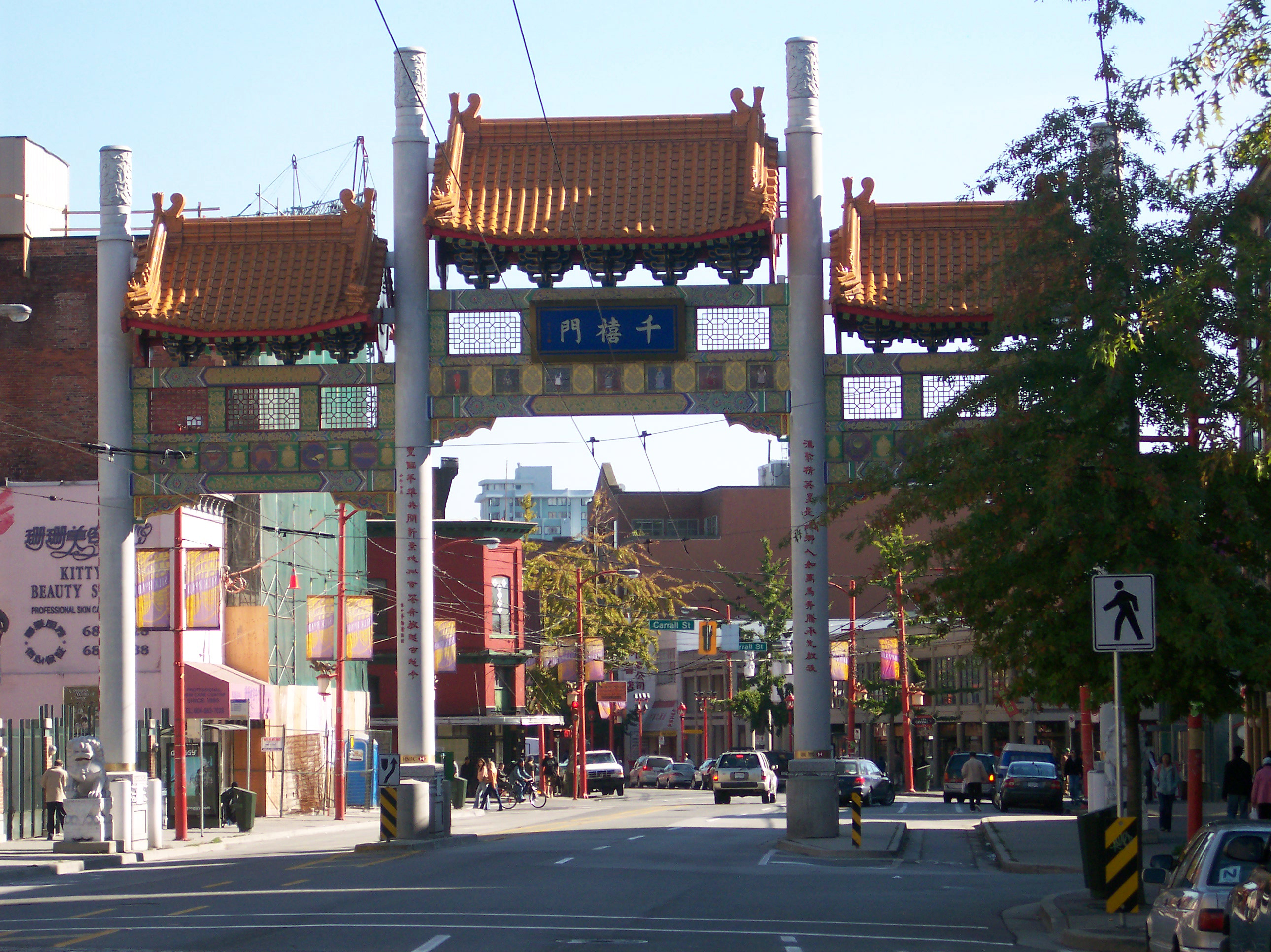 Millennium Gate in Chinatown, Vancouver, BC, Canada